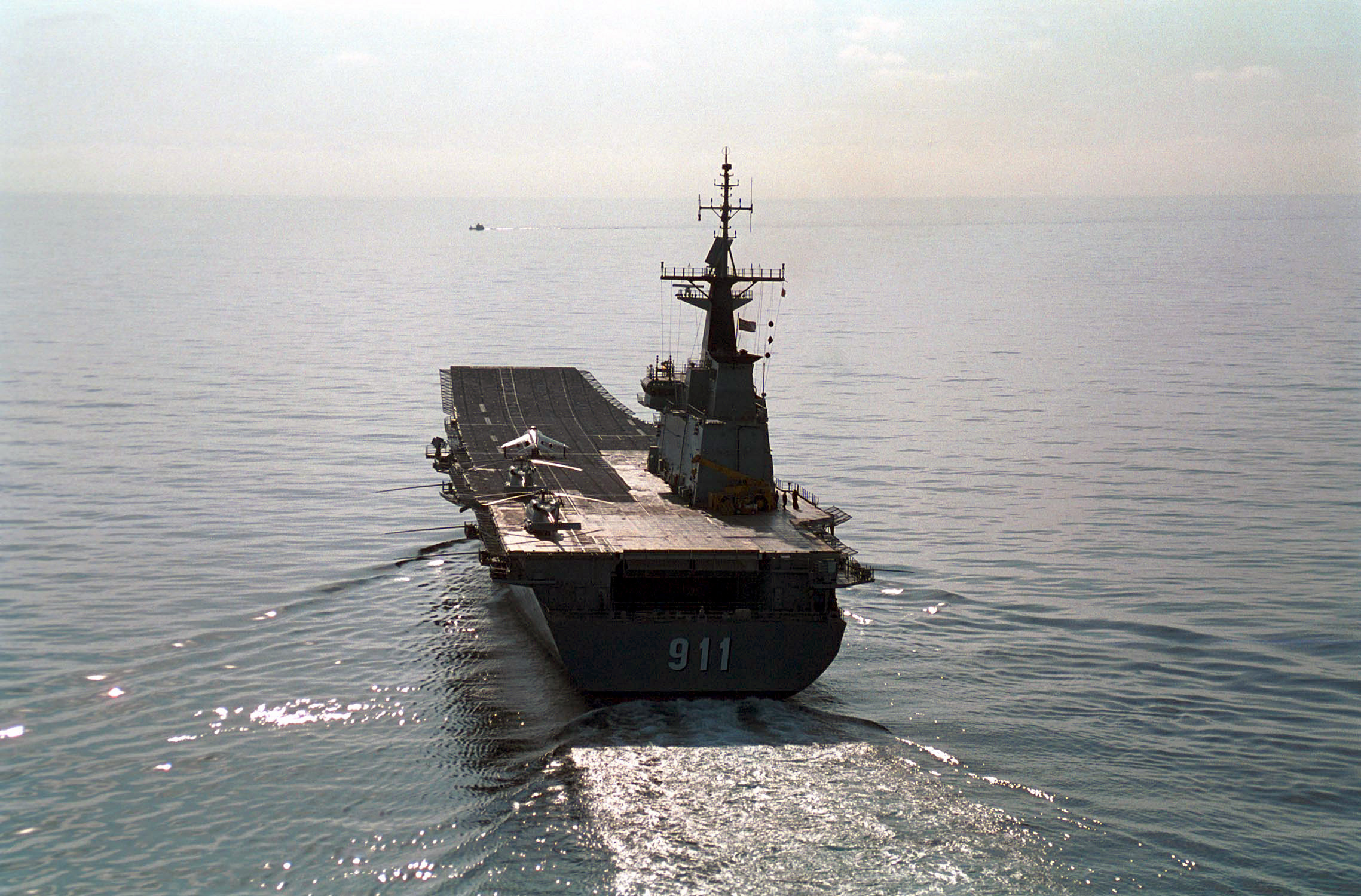 An AV-8 Harrier "Jump Jet" sits on the deck of The Royal Thai Naval HTMS CHAKRI NARUEBET (CVH 911), a helicopter carrier, near the coast of Thailand.